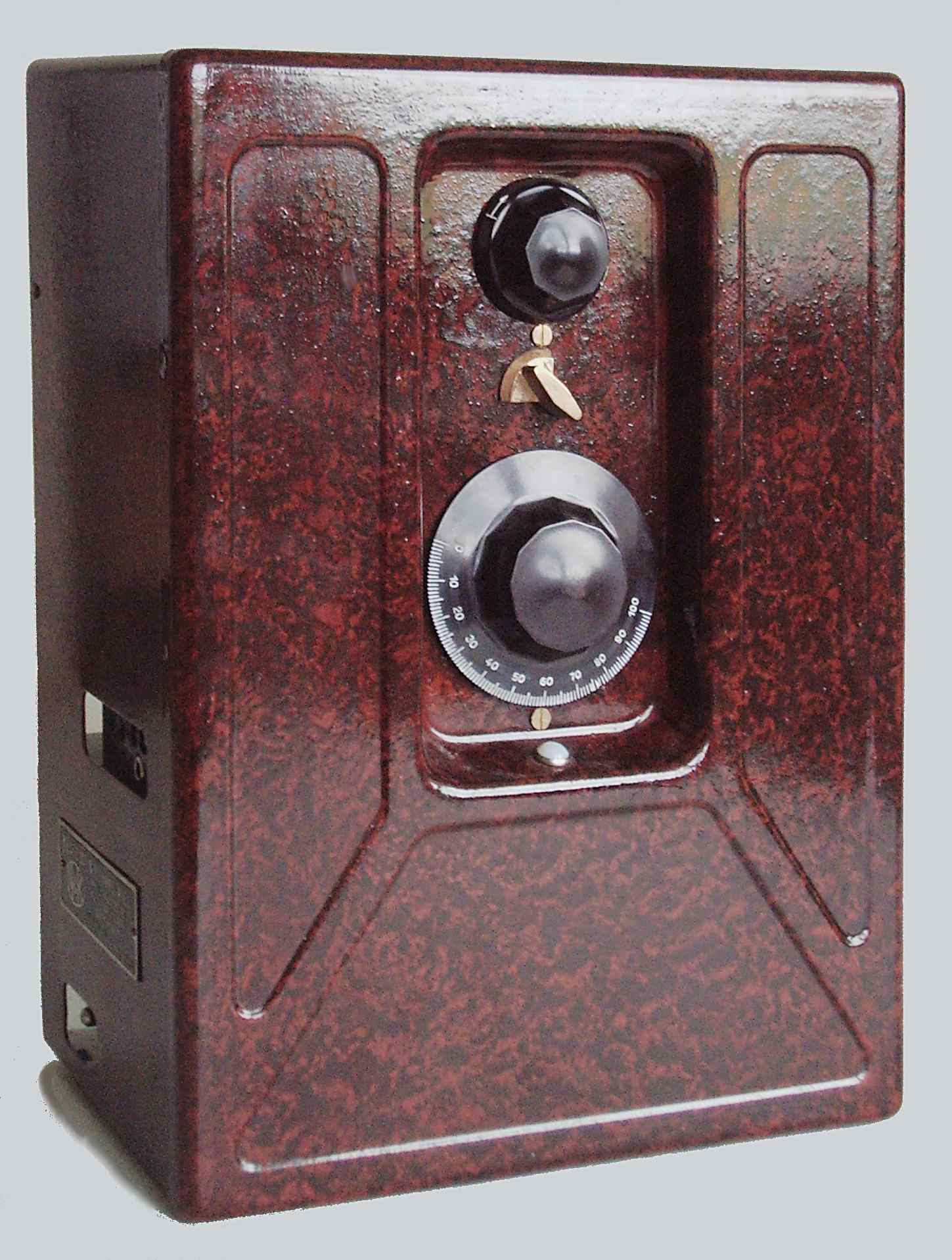 Neufeldt und Kuhnke NUK30 Radio [1]. It is not obvious from the photo, but this was a very compact radio measuring just 225 x 302 x 138 mm; the four tubes and transformers were stacked in two layers (they wouldn't fit on a single flat chassis in such a small enclosure).